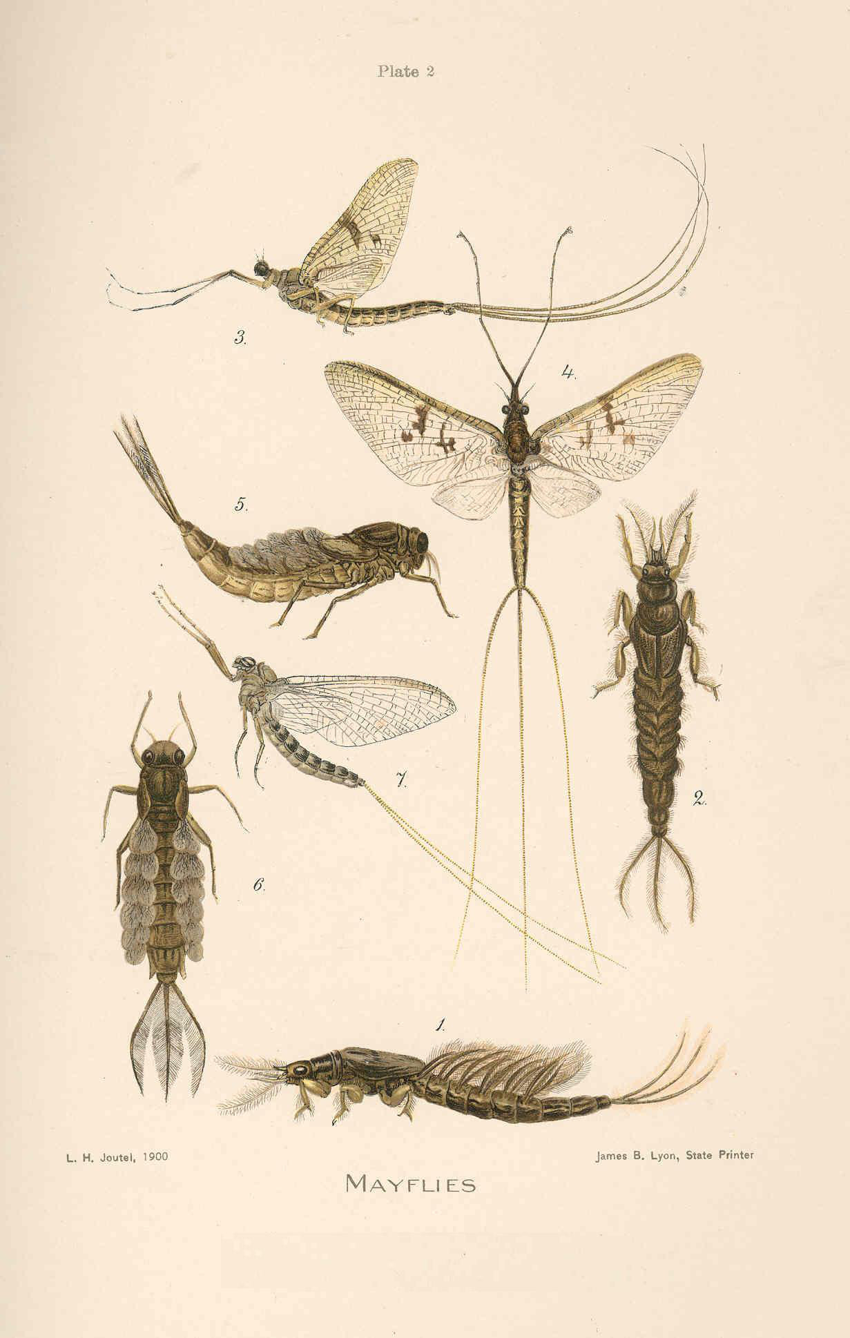 Mayflies: Ephemera viria Etn. 1. Lateral view of the nymph. Note the latero-dorsal breathing organs or gills on the abdominal segments; 2. Dorsal view of the nymph. This view shows how these organs may arch over the back; 3. Lateral view of the male imagop; 4. Dorsal view of the male imago Siphturus alternatus Say.: 5. Lateral view of the nymph. This larva possesses a different type of abdominal breathing organs or gills; 6. Dorsal view of the nymph. This view shows the overlapping of the gills and also gives some hint of the number of trachae or air tubes, represented by black lines in each; 7. Lateral view of the male imago Subject: Ephemera (Insects), Mayflies Tag: Insects